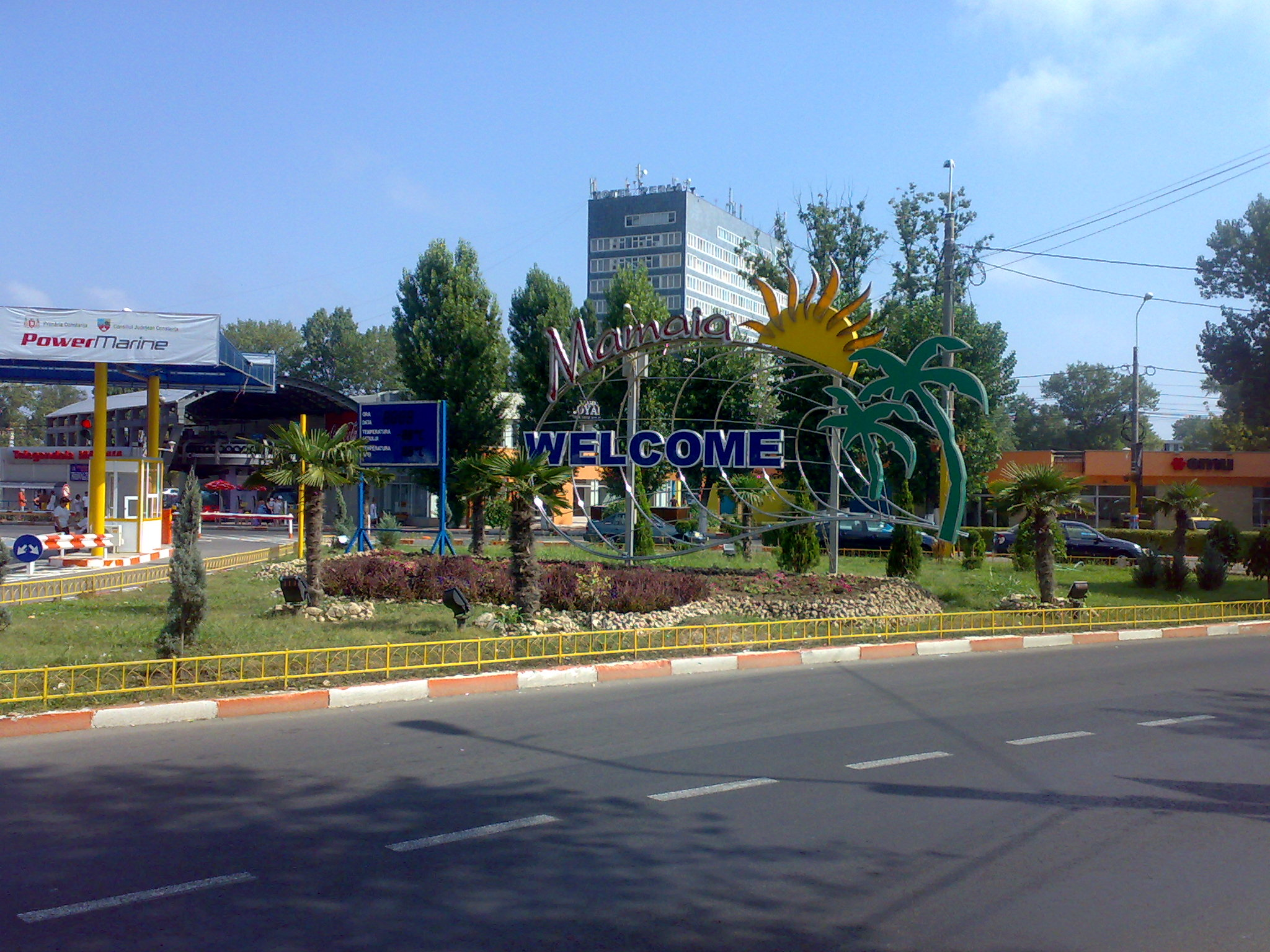 Welcome to Mamaia